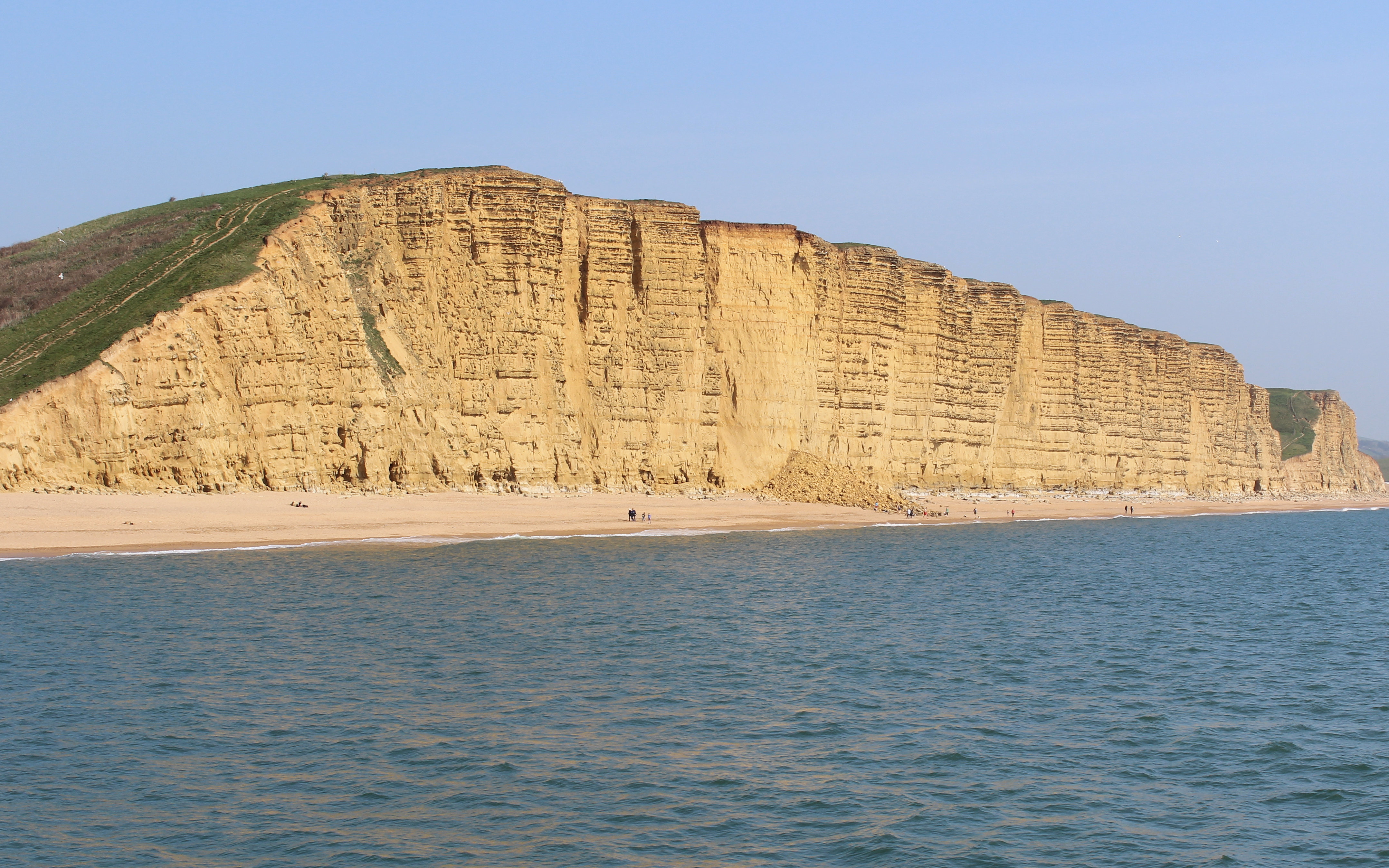 East Cliff, West Bay, Dorset, England taken from West Pier, West Bay harbour. The cliff, which is rich in fossils, is part of the Jurassic Coast. Geologically the cliff is described as "the finest available outcrop of the Bridport Sands, overlain by Middle Jurassic Inferior Oolite and Fullers Earth".[1] and is "considered by geologists and geomorphologists to be one of the most significant teaching and research sites in the world".[2] The effects of a rockfall can be seen close to the centre of the image. ↑ (June 2000) Nomination of the Dorset and East Devon Coast for inclusion in the World Heritage List, Dorset County Council and Devon County Council, p. 39, 57 Retrieved on 18 December 2019. ↑ Dorset and East Devon Coast. UNESCO. Retrieved on 18 December 2019. This place is a UNESCO World Heritage Site, listed as Dorset and East Devon Coast.